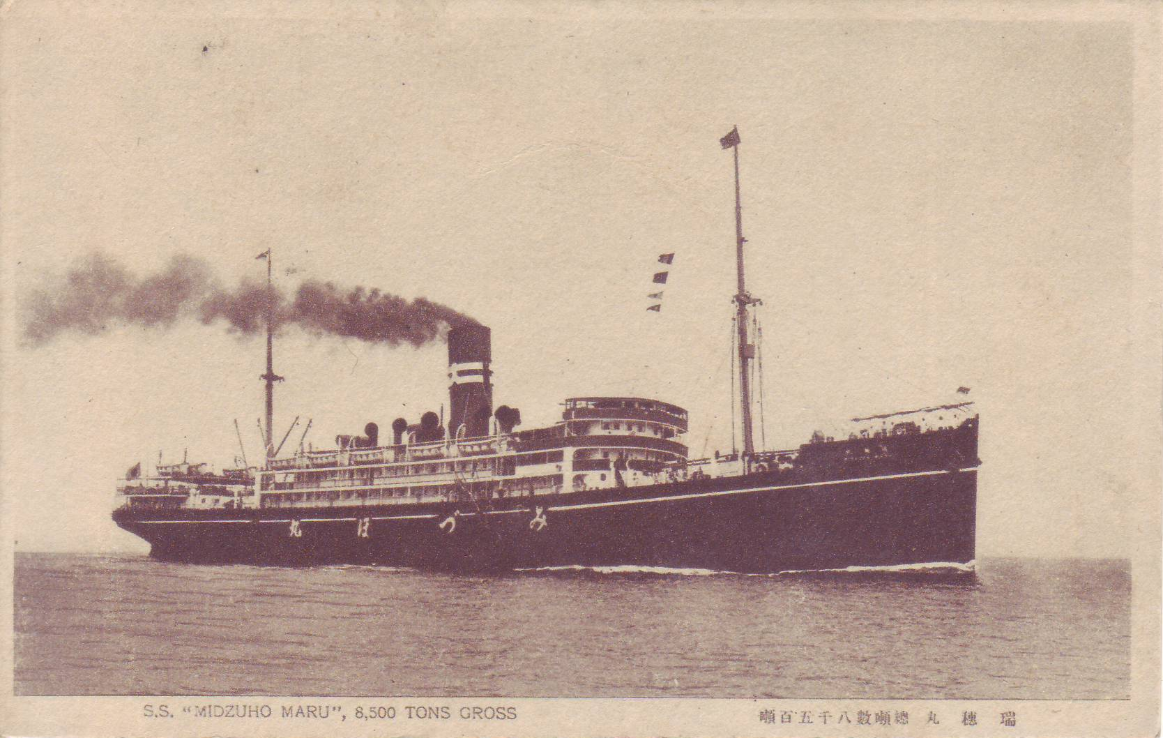 Postcard of OSK Line ship "Mizuho Maru".